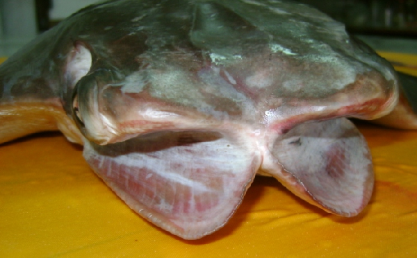 Rhinopetra jayakari.